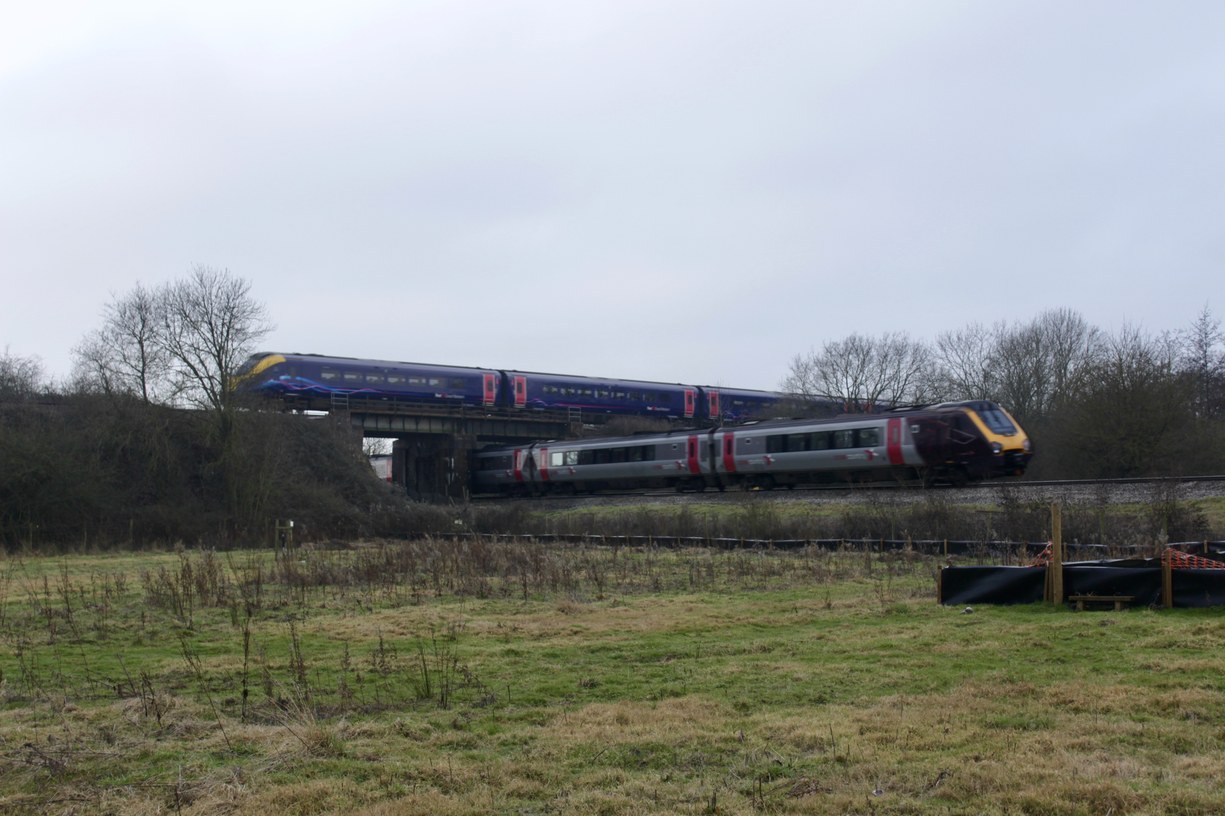 CrossCountry Plymouth-Edinburgh service and Great Western Railway Hereford-London Paddington service both passing through the proposed new station site, Feb 2017